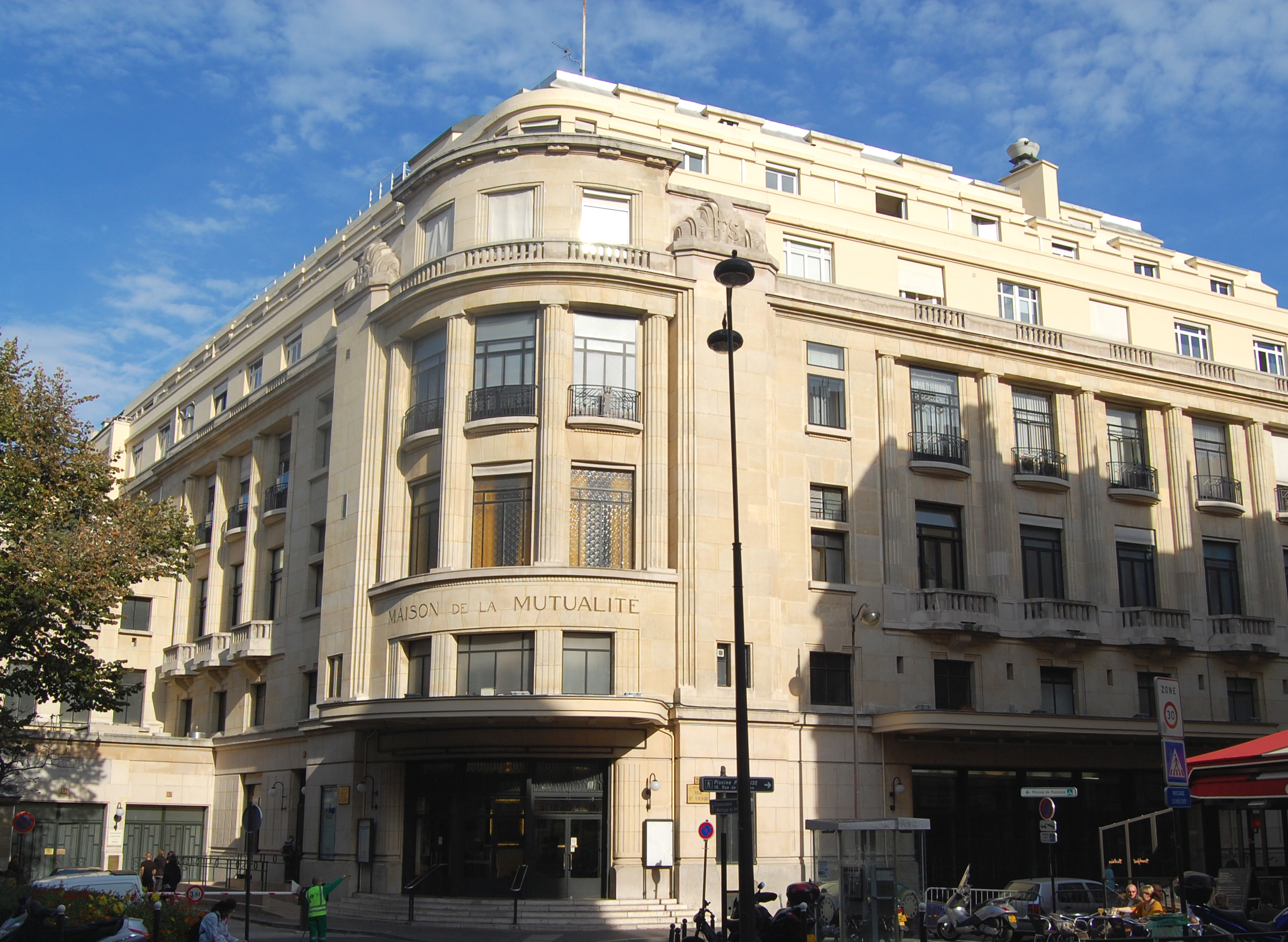 Maison de la Mutualité (conference centre), Paris, France